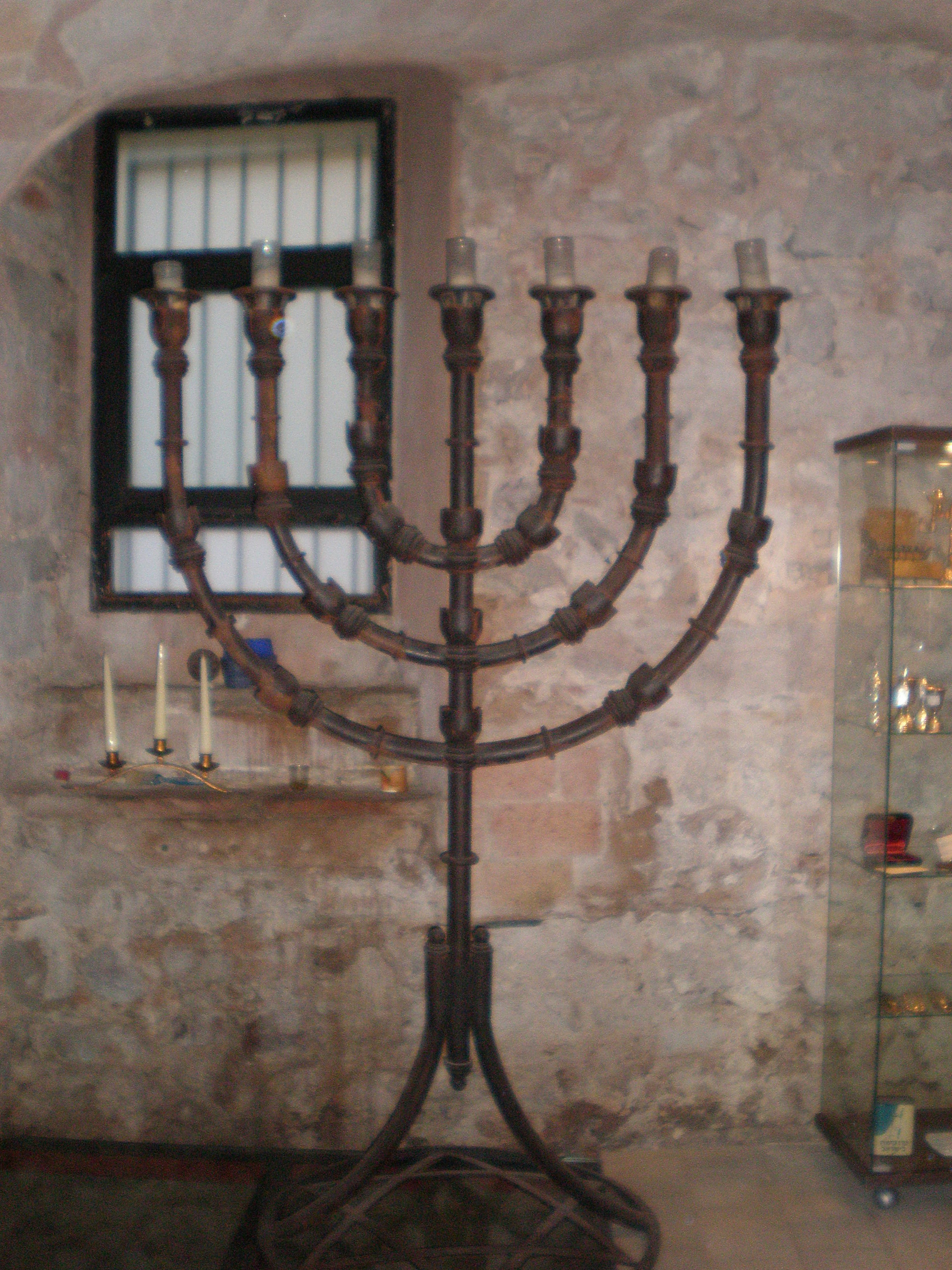 Menorah from the Main Synagogue of Barcelona